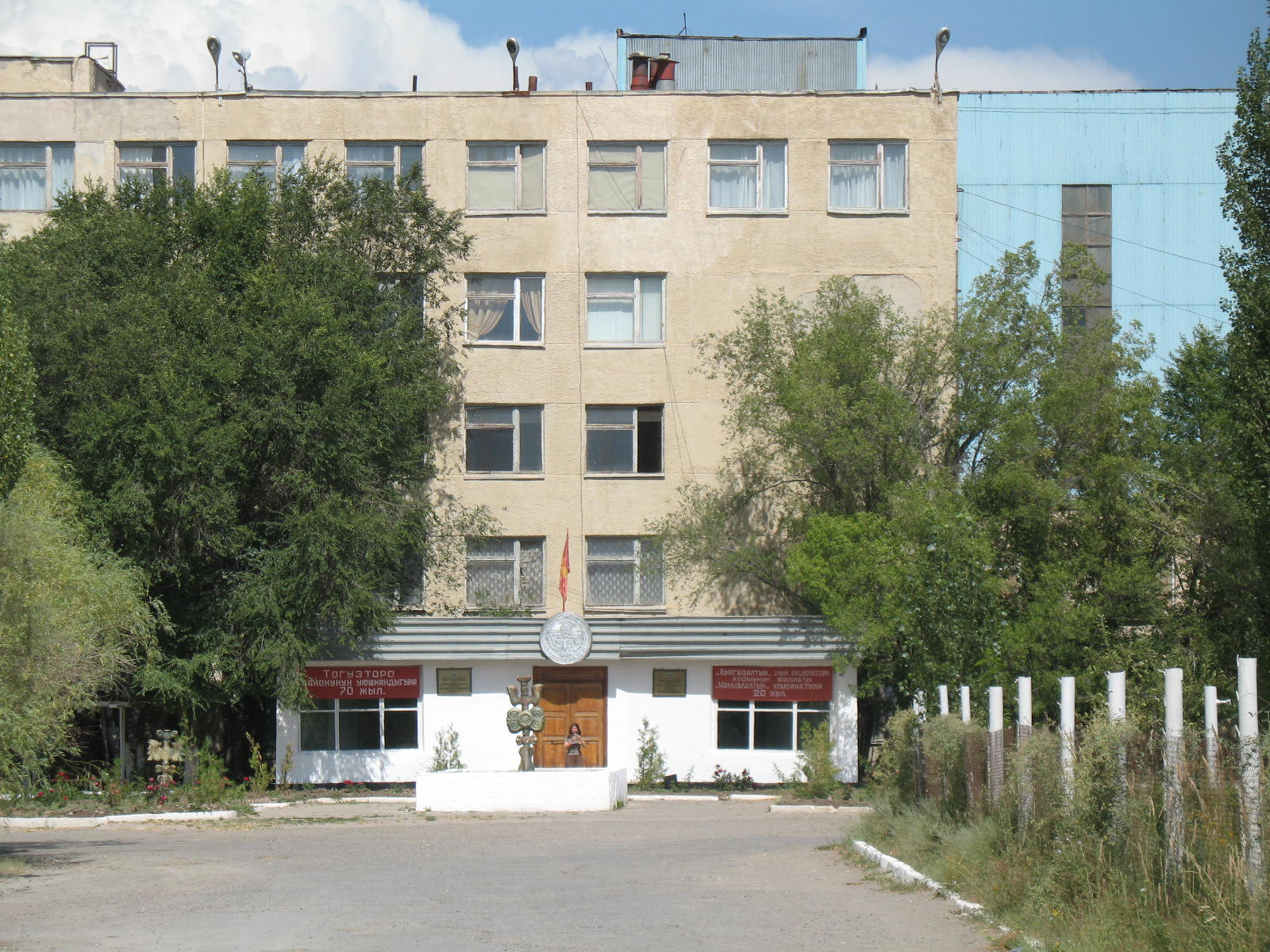 The Makmalaltyn branch office of Kyrgyzaltyn Кыргызча: Кыргызалтын ААКнын Макмалалтын филиалы